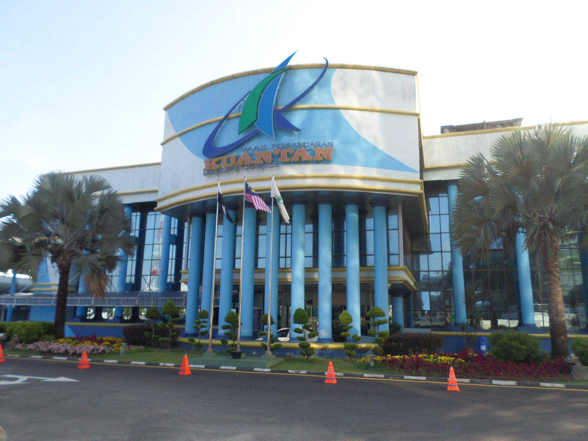 Kuantan Municipal Council, Kuala Kuantan, Kuantan, Pahang, Malaysia